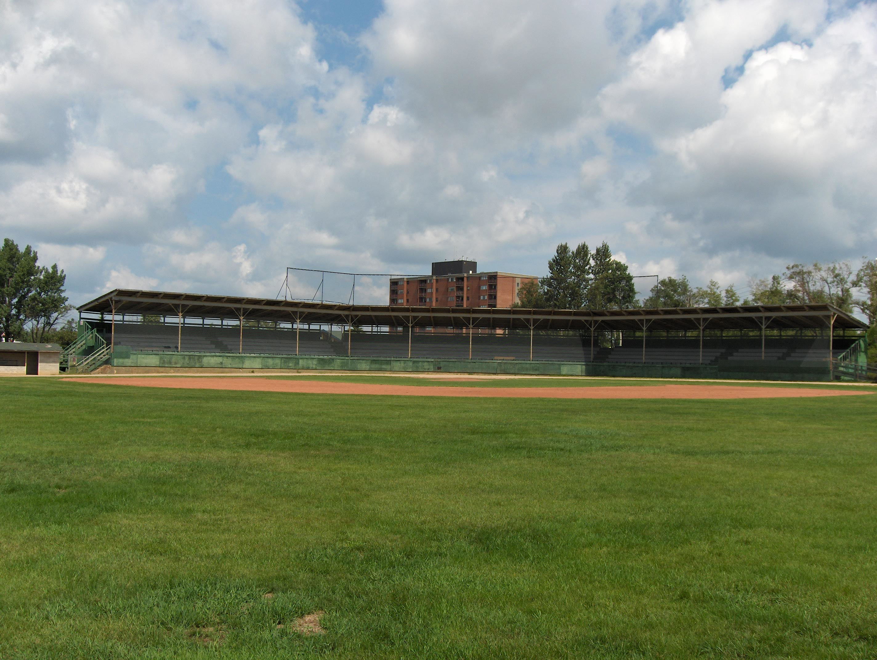 Author - John Monaghan Source - HP Photosmart HP717